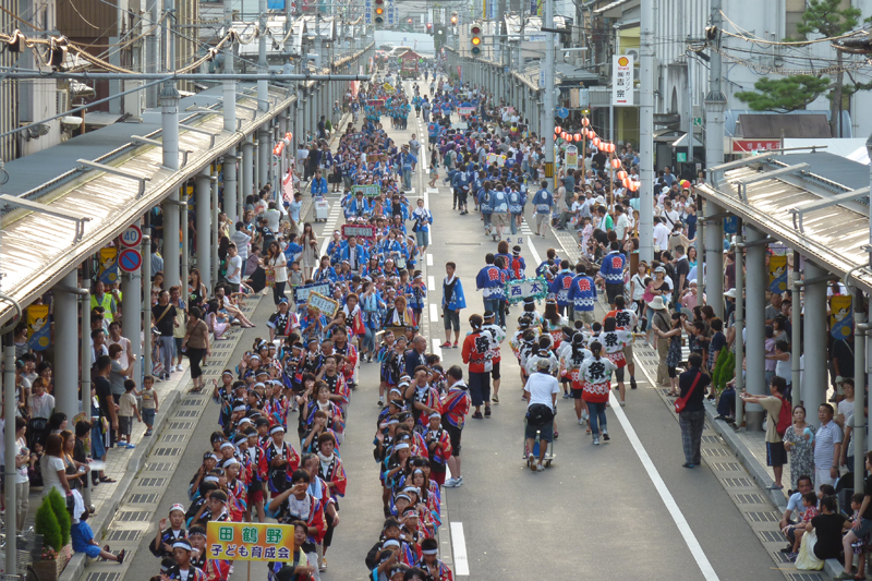 Toyooka Odori in Toyooka, Hyogo Prefecture, Japan.